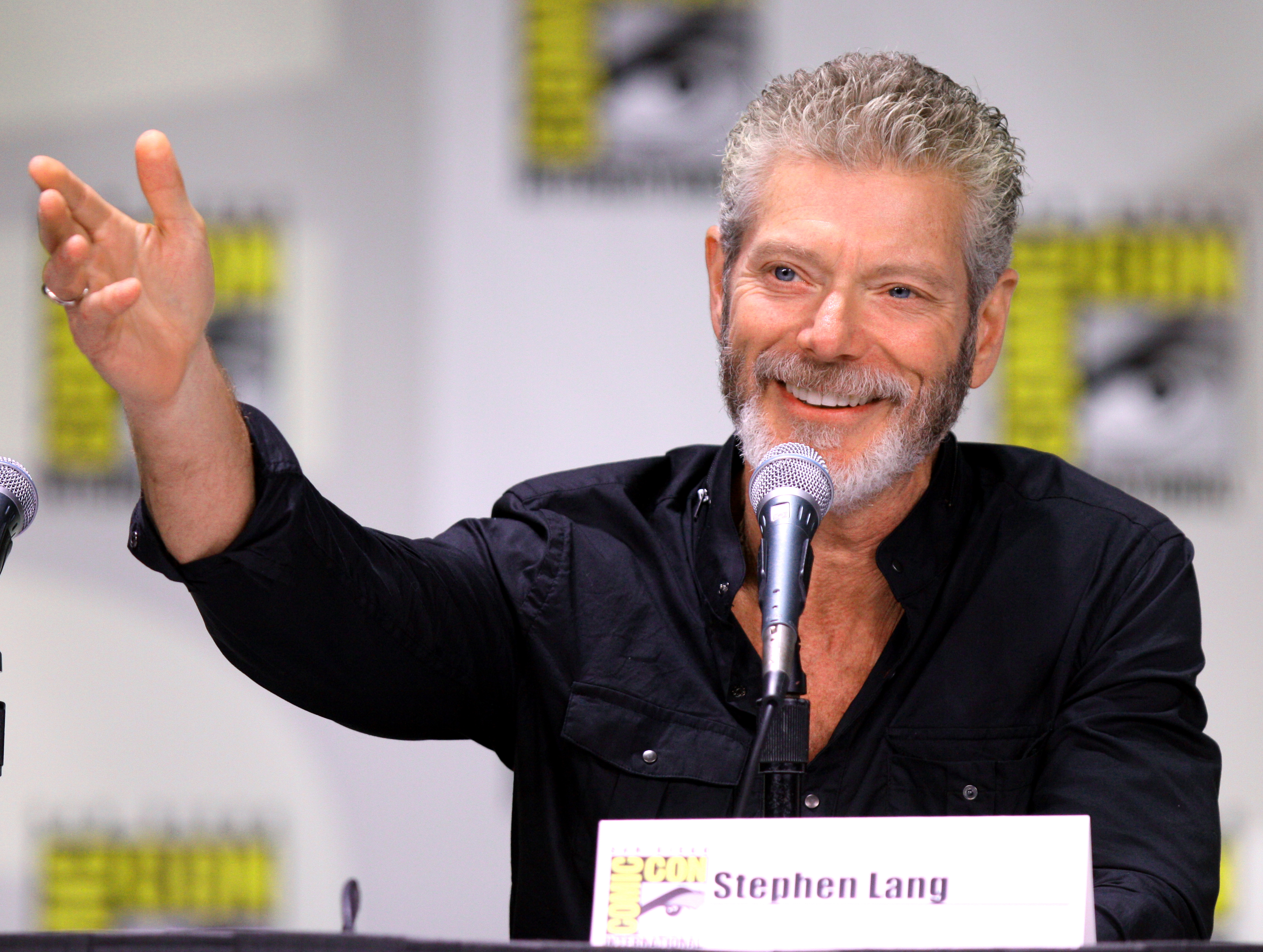 Stephen Lang at the 2011 San Diego Comic Con International in San Diego, California.